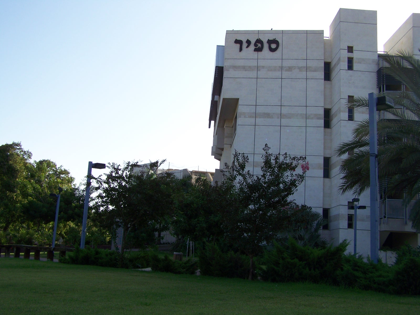 Main Building of Sapir College, Sha'ar Hanegev, Israel